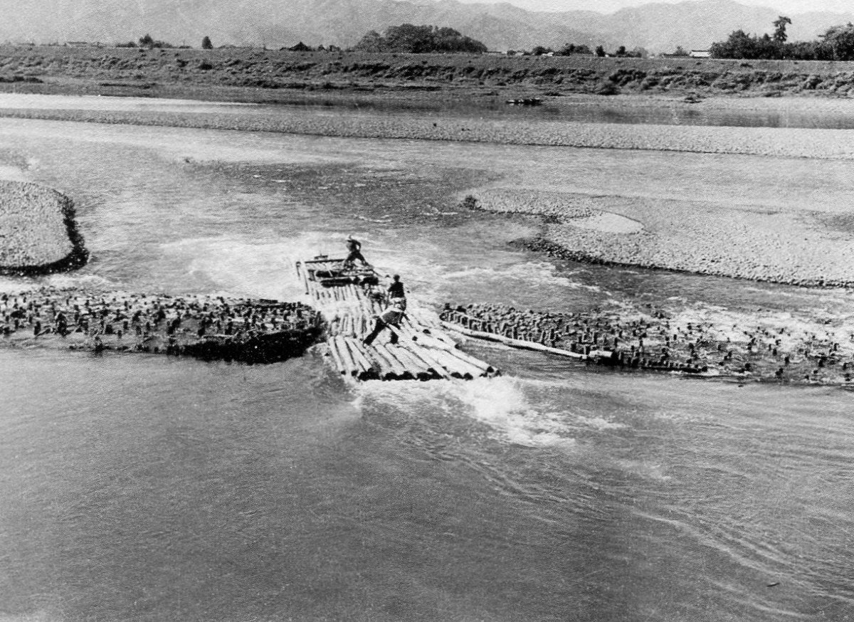 Oi Tezaki Ikada in Taishou